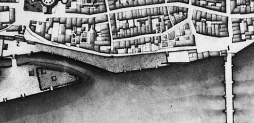 Maastricht, the Netherlands. Detail of a map showing a part of the city in 1749. The map by French military engineer Jean-Baptiste Larcher d'Aubencourt was used to built the Maquette of Maastricht (1752), now in the Musée de Beaux Arts in Lille, France. Here a section of the city along the river Meuse. To the right: Saint Servatius Bridge. Along the river the Koolbat quay and the 17th-century Batpoort citygate.